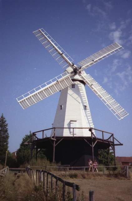 Photo of the restored Lower Mill, Woodchurch